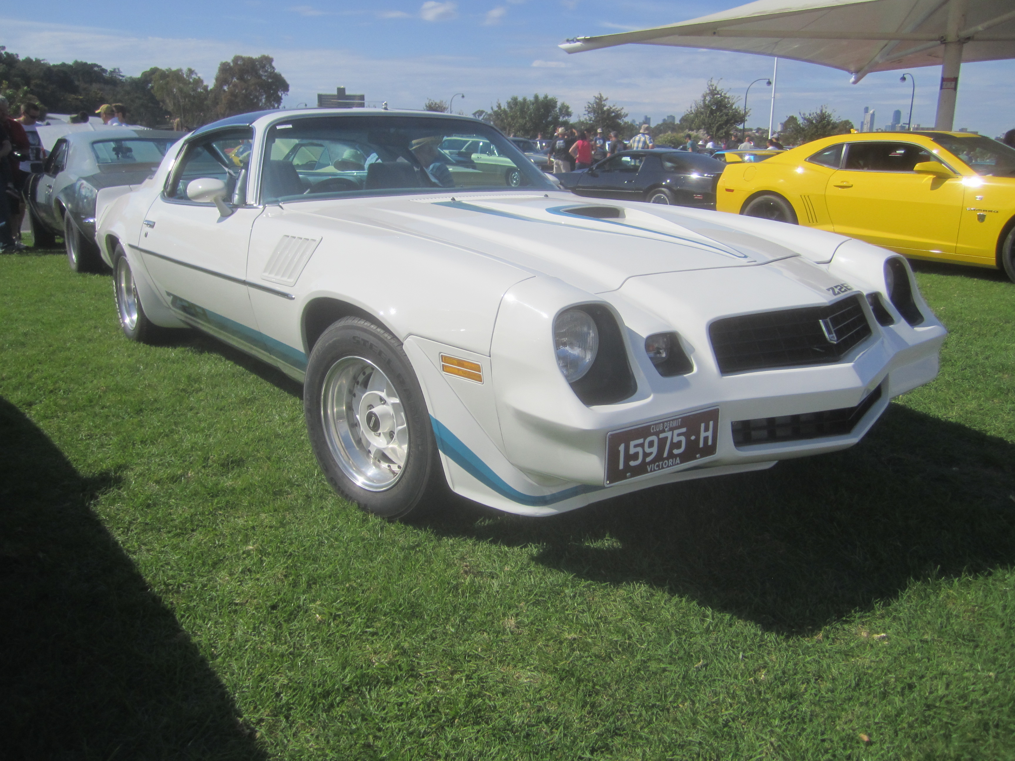 White. 1974 saw the 2nd generation Camaro get a facelift, now longer, thanks to a new nose, with forward sloping grille. A wrap around rear window was introduced in 1975. The Z28 was reintroduced in 1977 1978 saw the front bumper integrated into the nose of the car In 1979 a front spoiler and fender flares were added. Models available this year were; base coupe, Rally Sport, Berlinetta, and Z28 Z28 engine; 185hp 350 V8